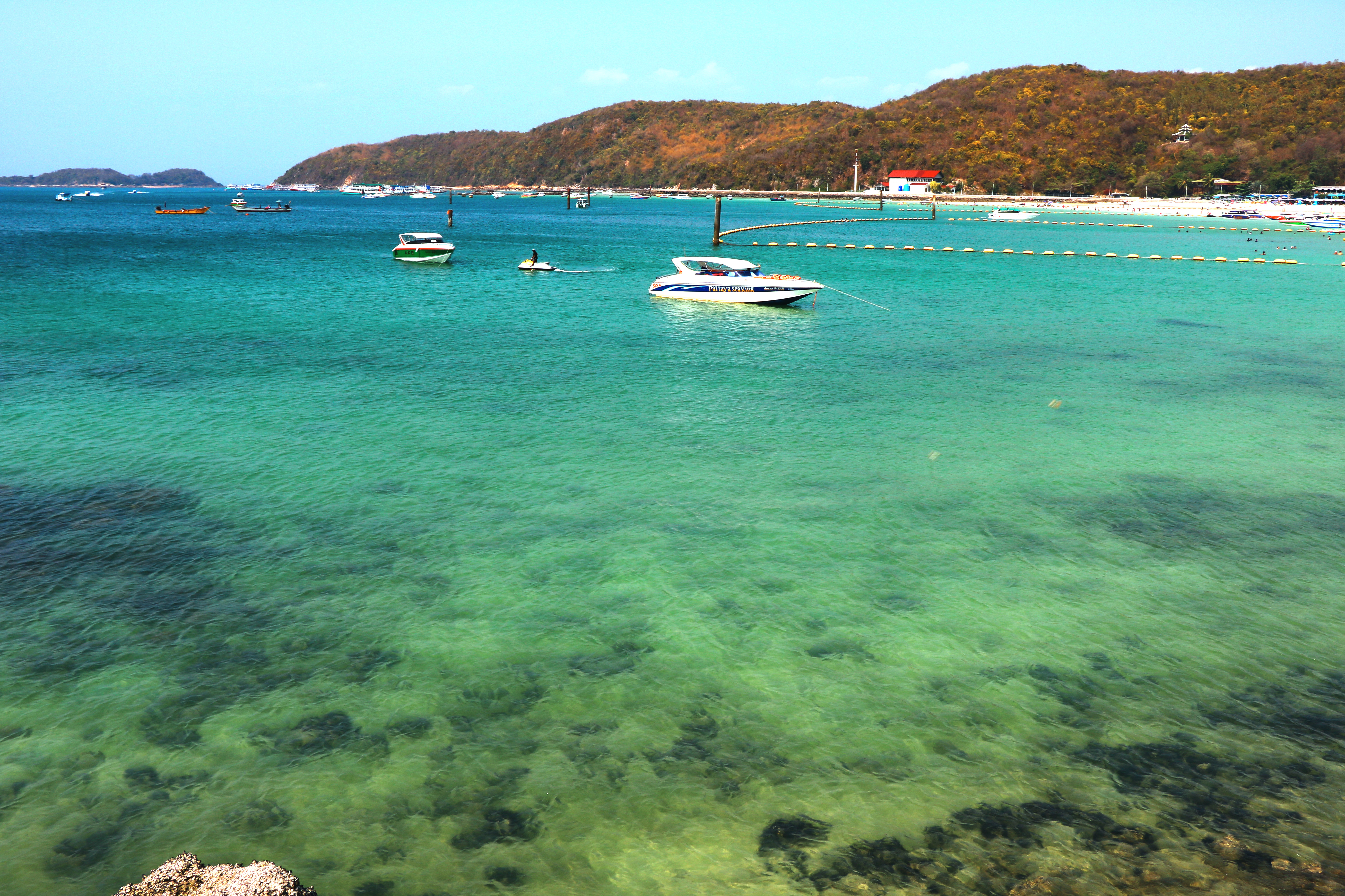 Tawaen Beach is the most visited beach in Ko Lan locating in the west side of the island.